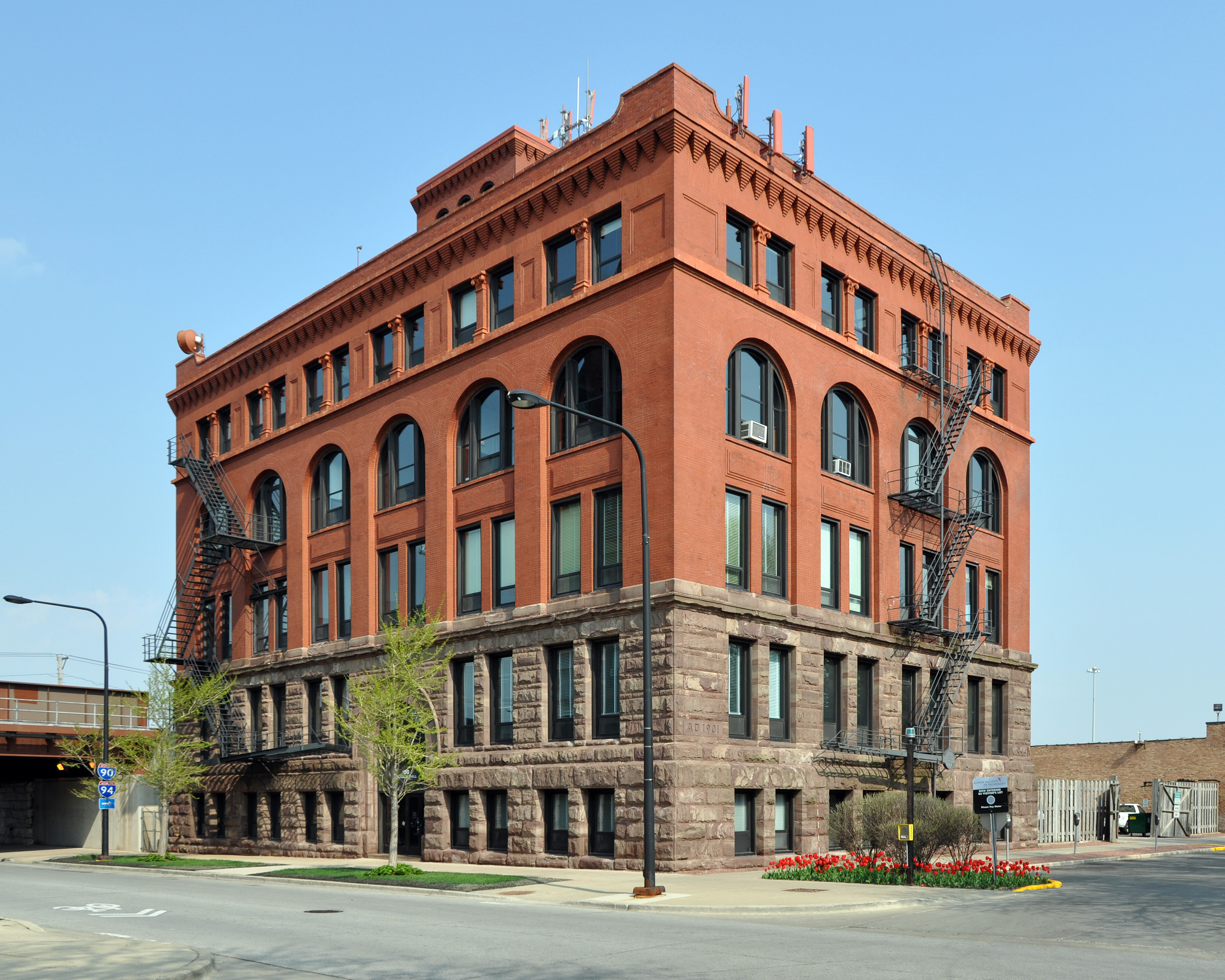 The Machinery Hall at Illinois Institute of Technology in Chicago, USA was designed by C. V. Kerr of Patten & Fisher and built in 1901. The building was gifted by Malvina Armour and dedicated to the memory of her son, Philip D. Armour, Jr. The Armour Institute initially used the building for classrooms and laboratories for teaching mechanical arts classes. Currently, it houses the Illinois Institute of Technology Facilities offices and storage. In 2004 the building was recognized as a Chicago Landmark.